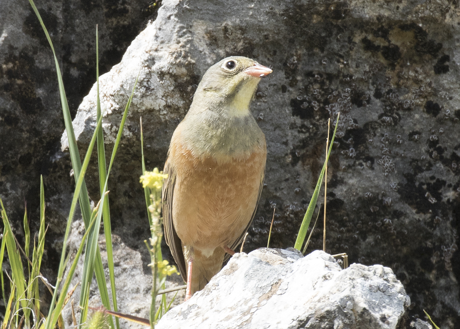 Ortolan bunting (Emberiza hortulana). Kasakal Mt., Güzelim - Tufanbeyli, Adana - Turkey.